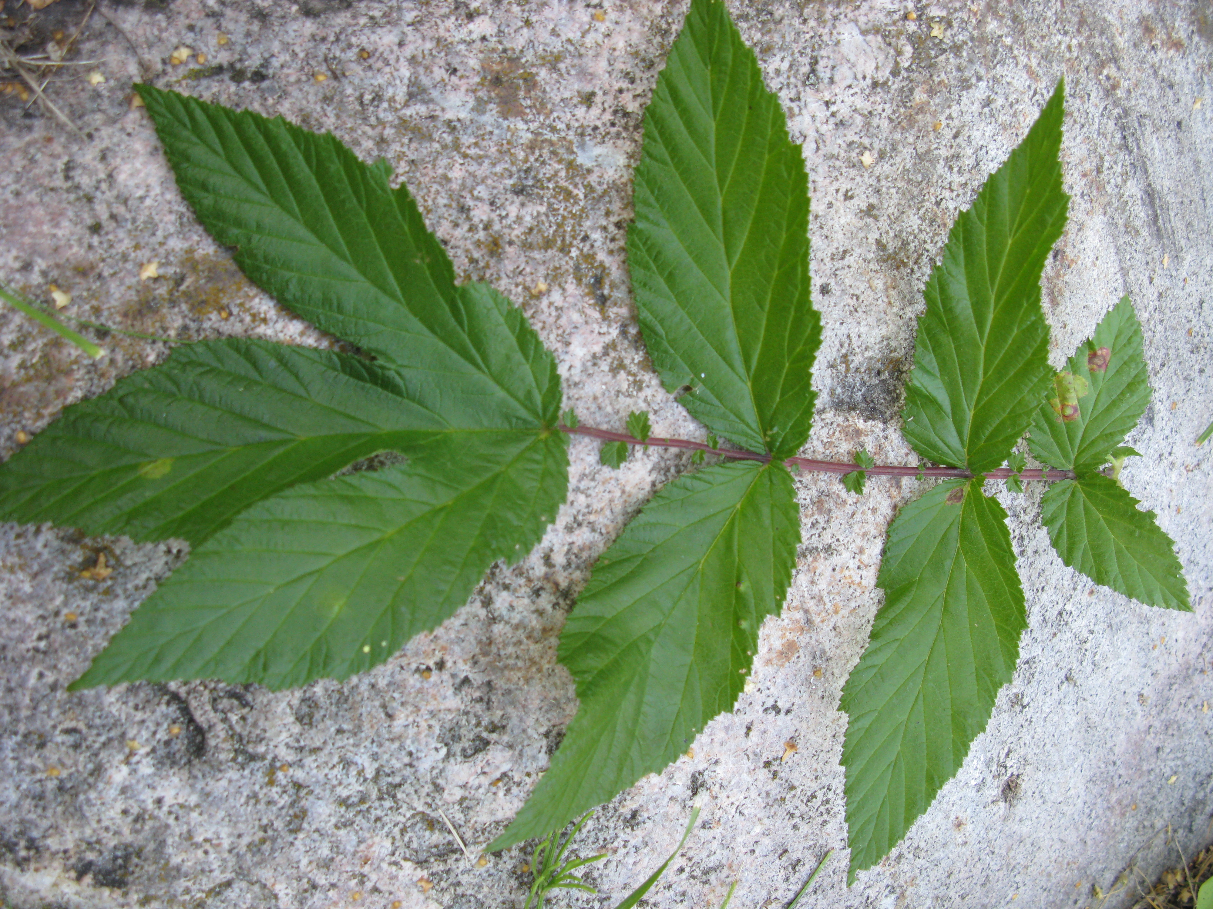 Leaves of Filipendula ulmaria